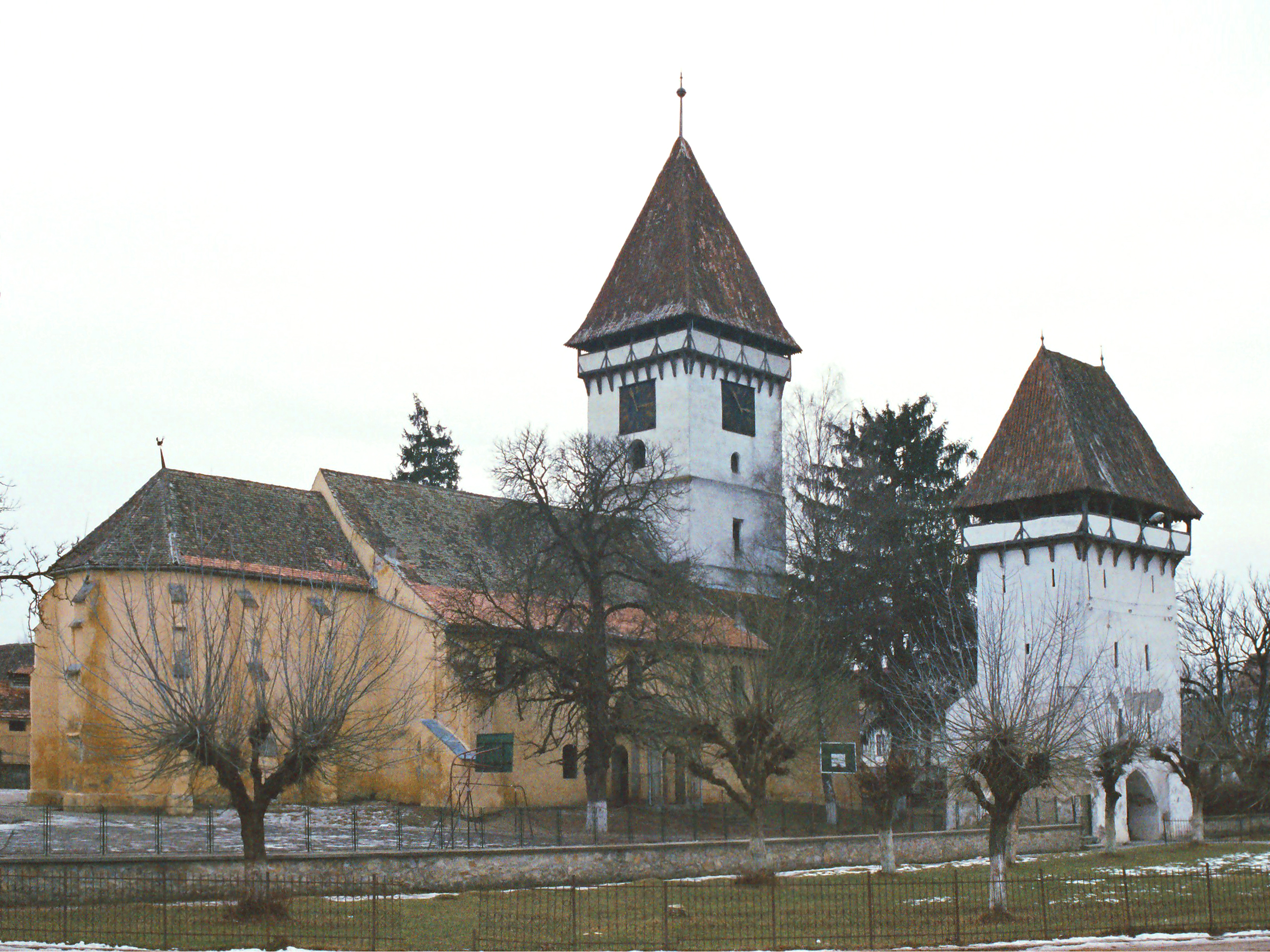 Churchfortress in Agnita, Romania.